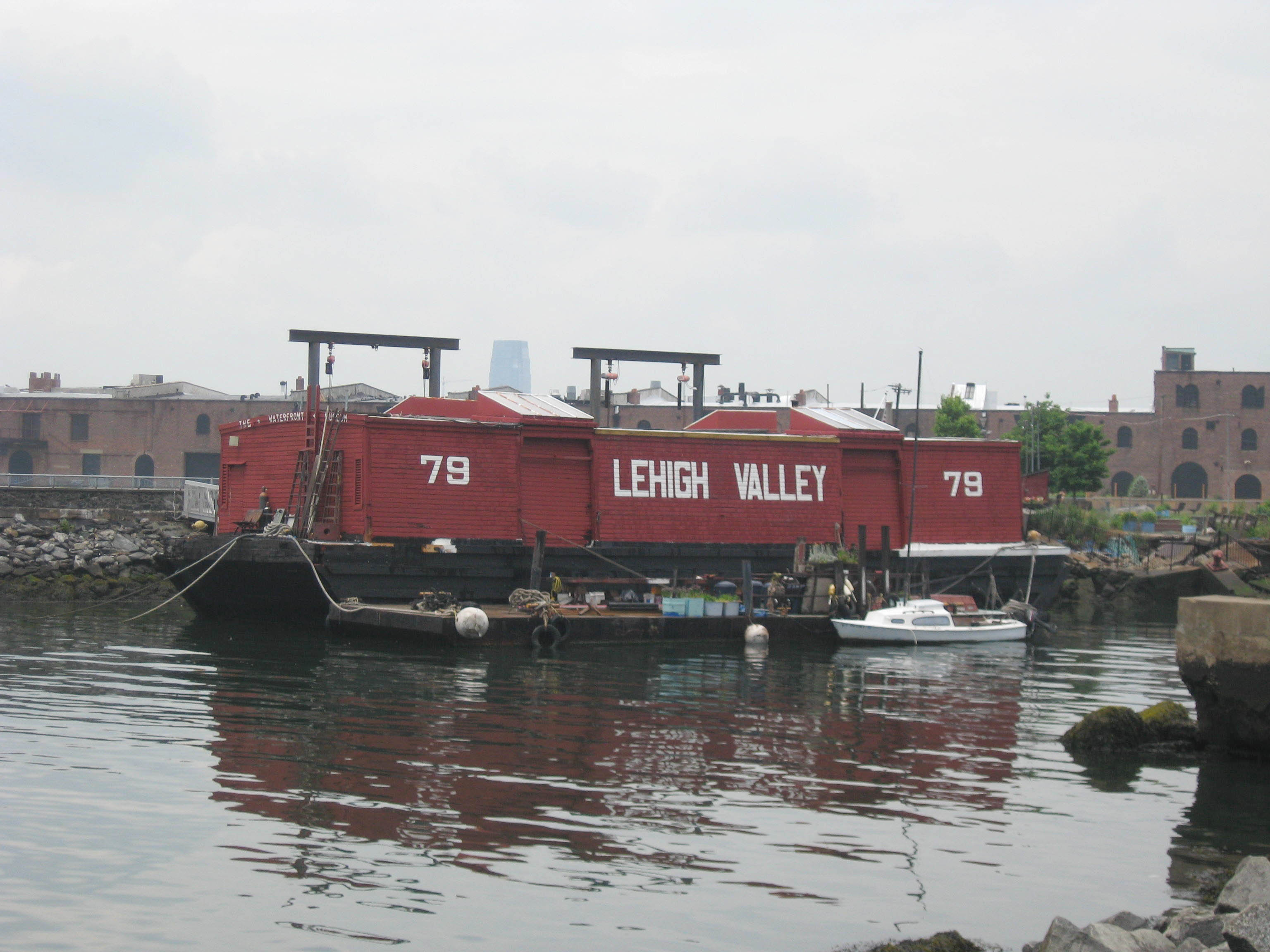 Looking north on a rainy June 15 2008 afternoon at Lehigh Valley Railroad Barge 79 in Red Hook, Brooklyn. Replaces May's darker Image:Lehighbarge79.JPG.